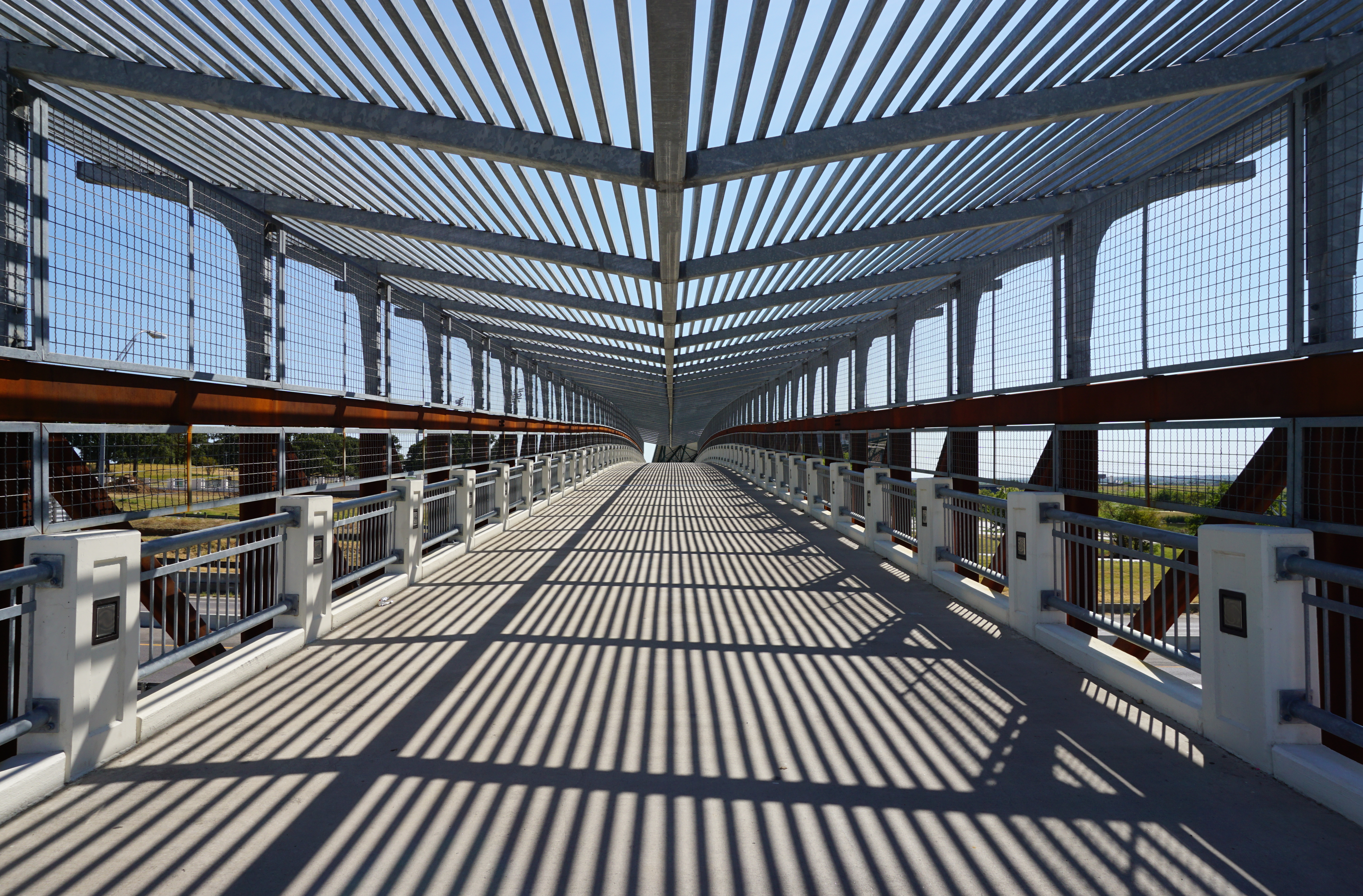 The pedestrian bridge on the campus of the University of North Texas in Denton, Texas (United States).